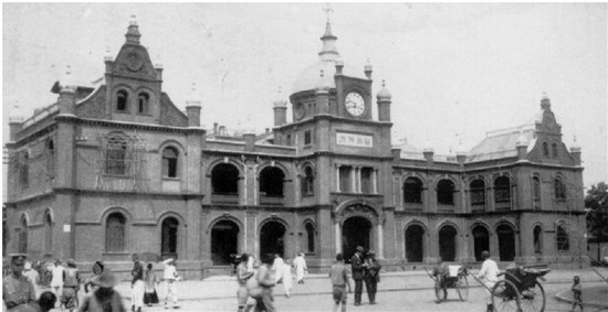 Hangzhou Railway Station before WWII.